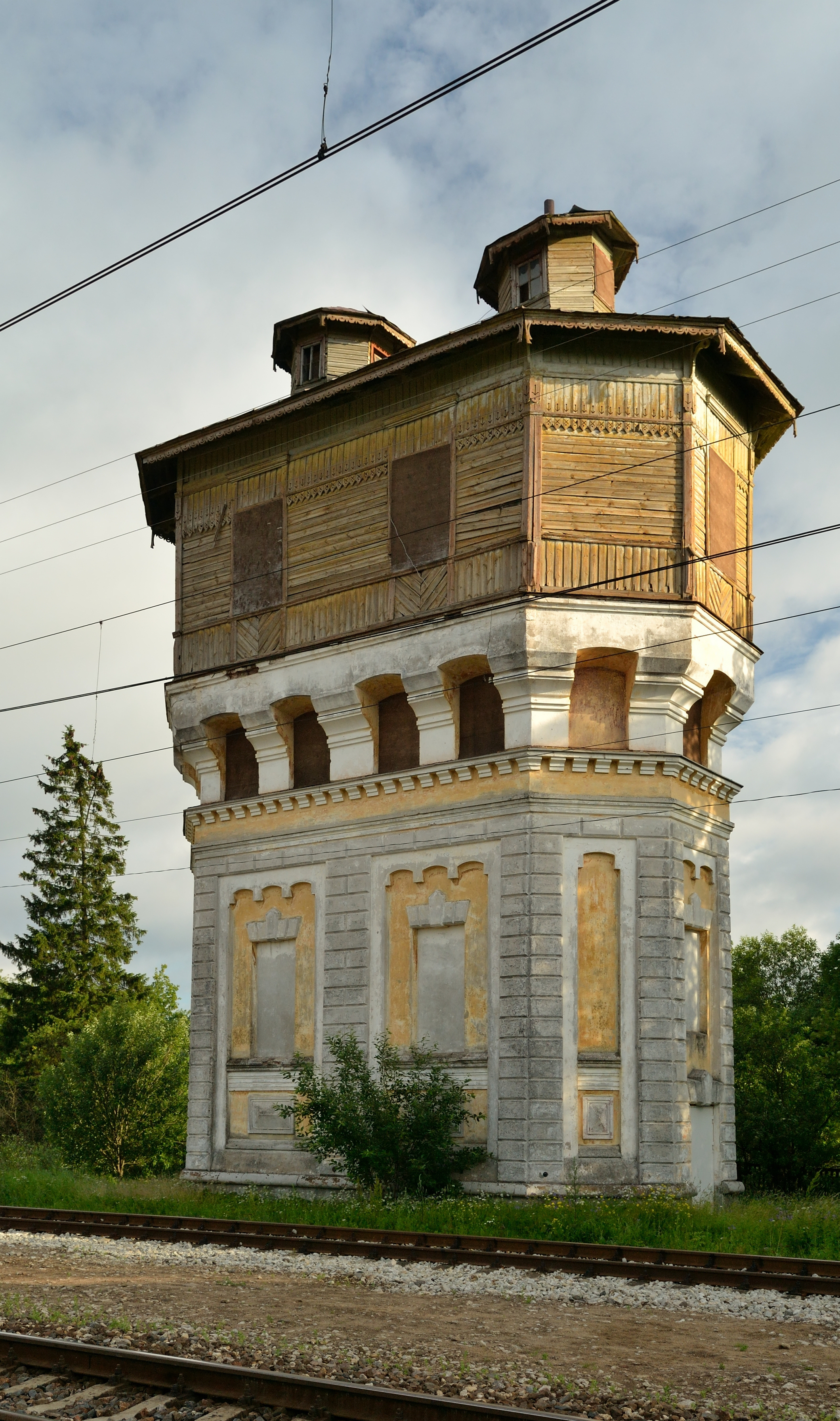 Raasiku station water tower, built probably in 1870